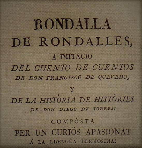 Portada del llibre "Rondalla de rondalles", de Lluís Galiana